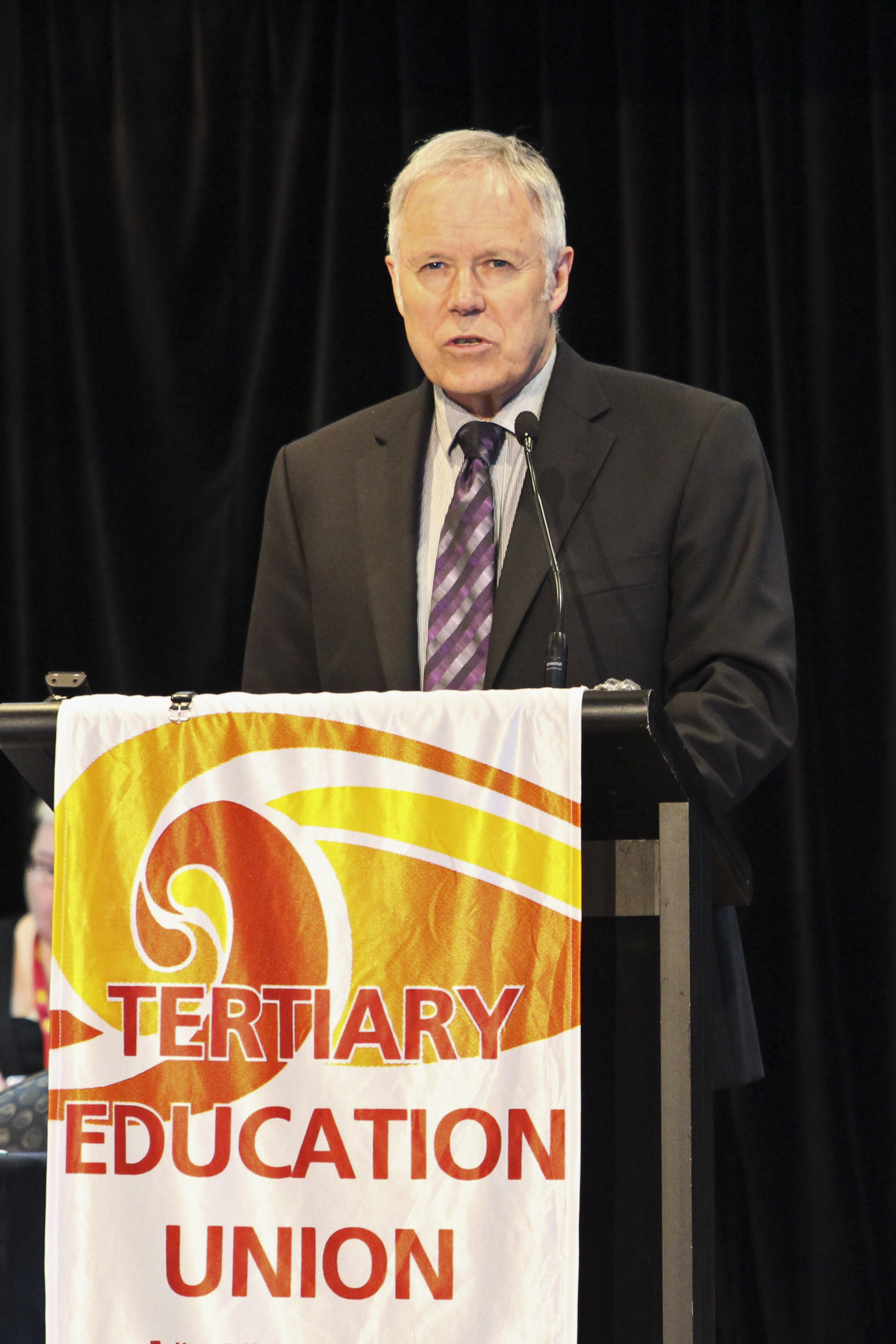 TEU Annual Conference 2013